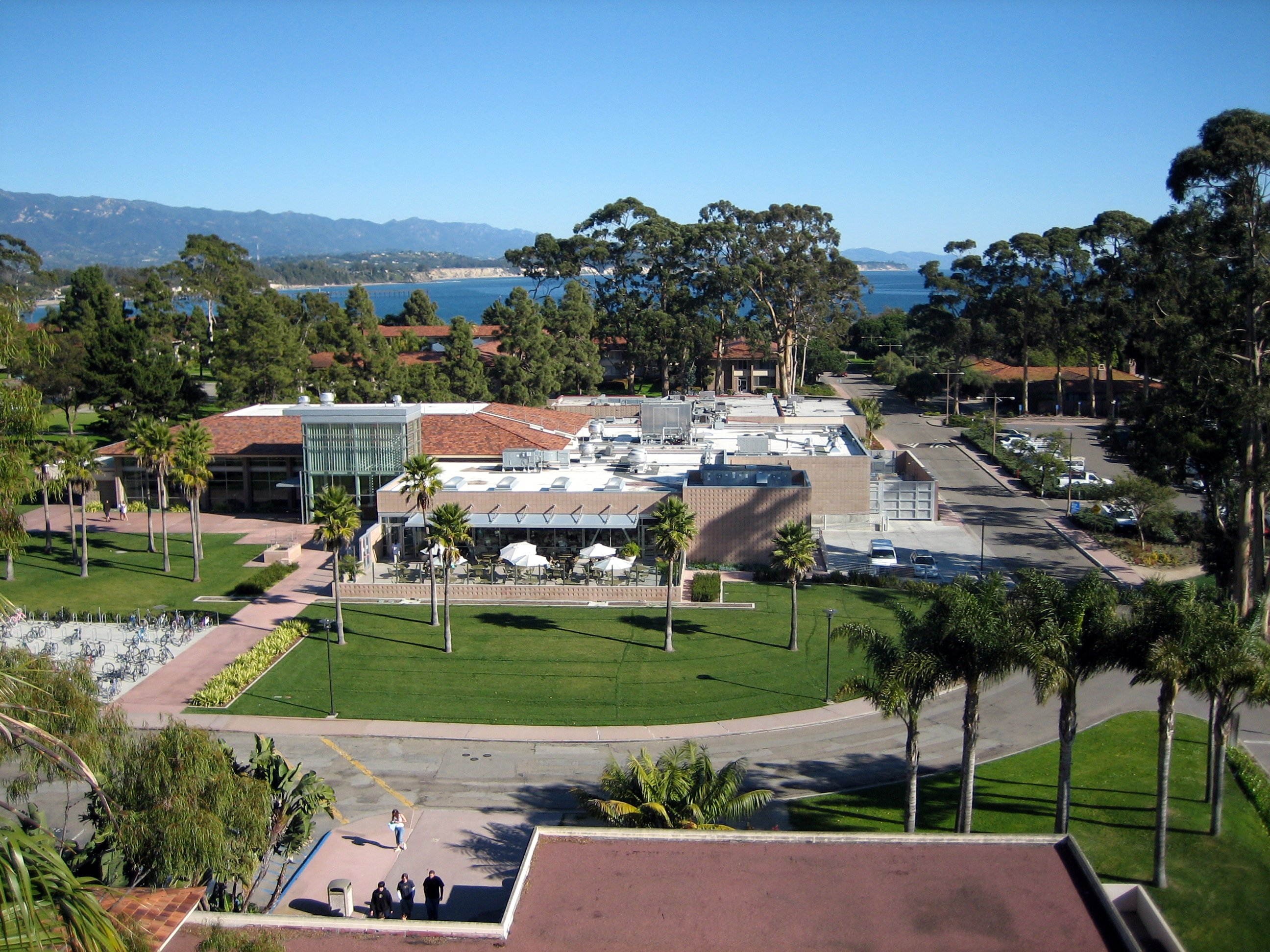 This is the De La Guerra dining common as seen from the eight floor of San Nicolas.